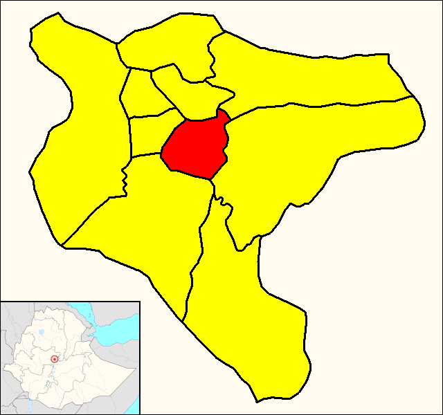 Map of the district (subcity) of Kirkos (shown in red) within the city of Addis Ababa (yellow).